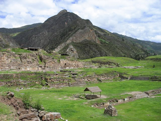 Monumento Arqueológico Chavín de Huántar. In 2006 I spent 4 months in the town of Chavín de Huántar for anthropological research on tourism. I made this picture during one of my numerous visits to the ruins.